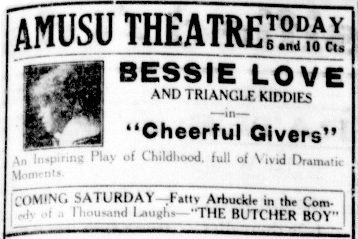 Cheerful Givers is a 1917 silent film comedy drama produced by the Fine Arts Film Company and distributed by Triangle Film Corporation. The film stars Bessie Love and Kenneth Harlan. It is presumed lost. This is a newspaper advertisement for the film.